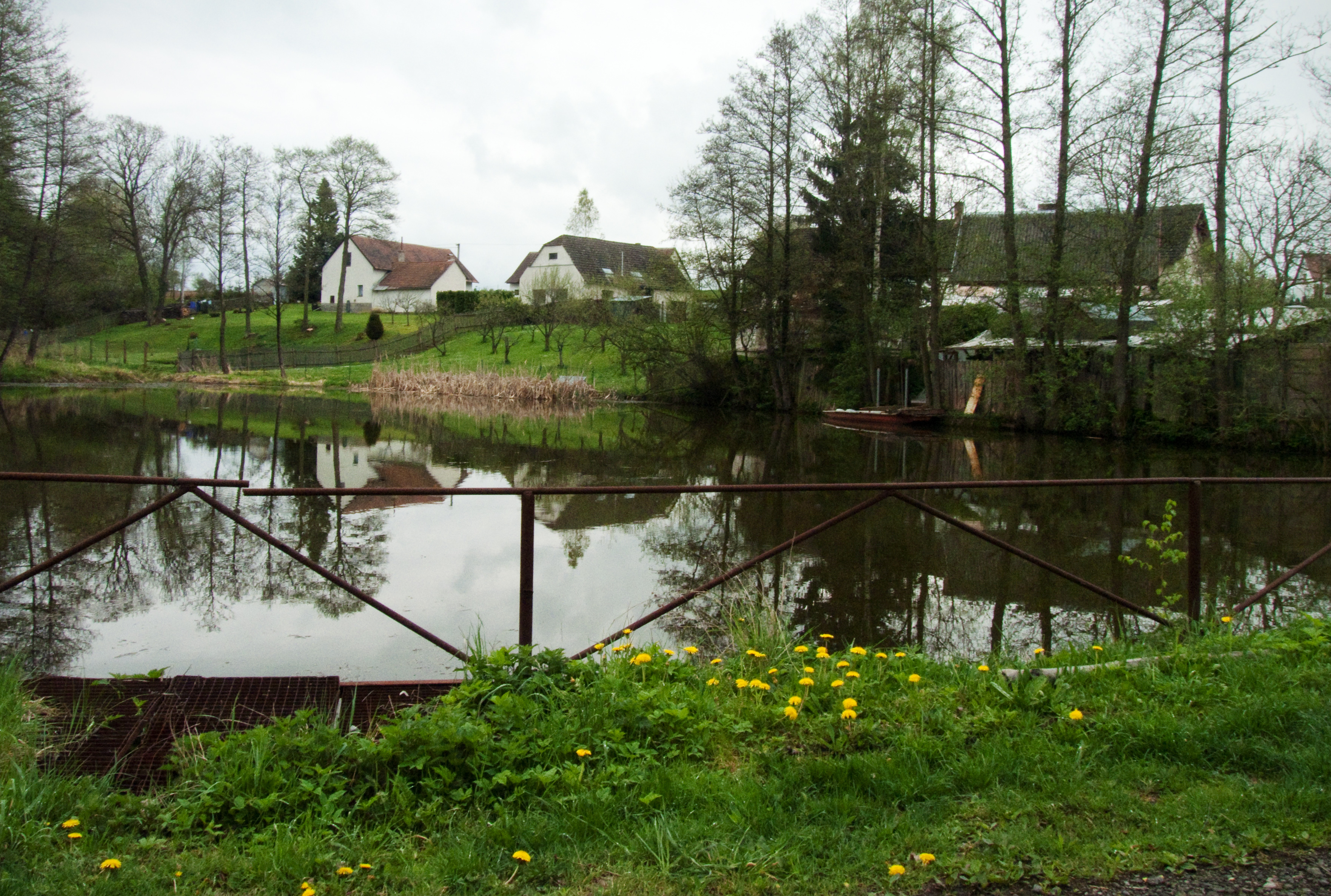 Wooden bell tower in the village of Rzavá, Tábor district, Czech Republic with the village houses at the background.